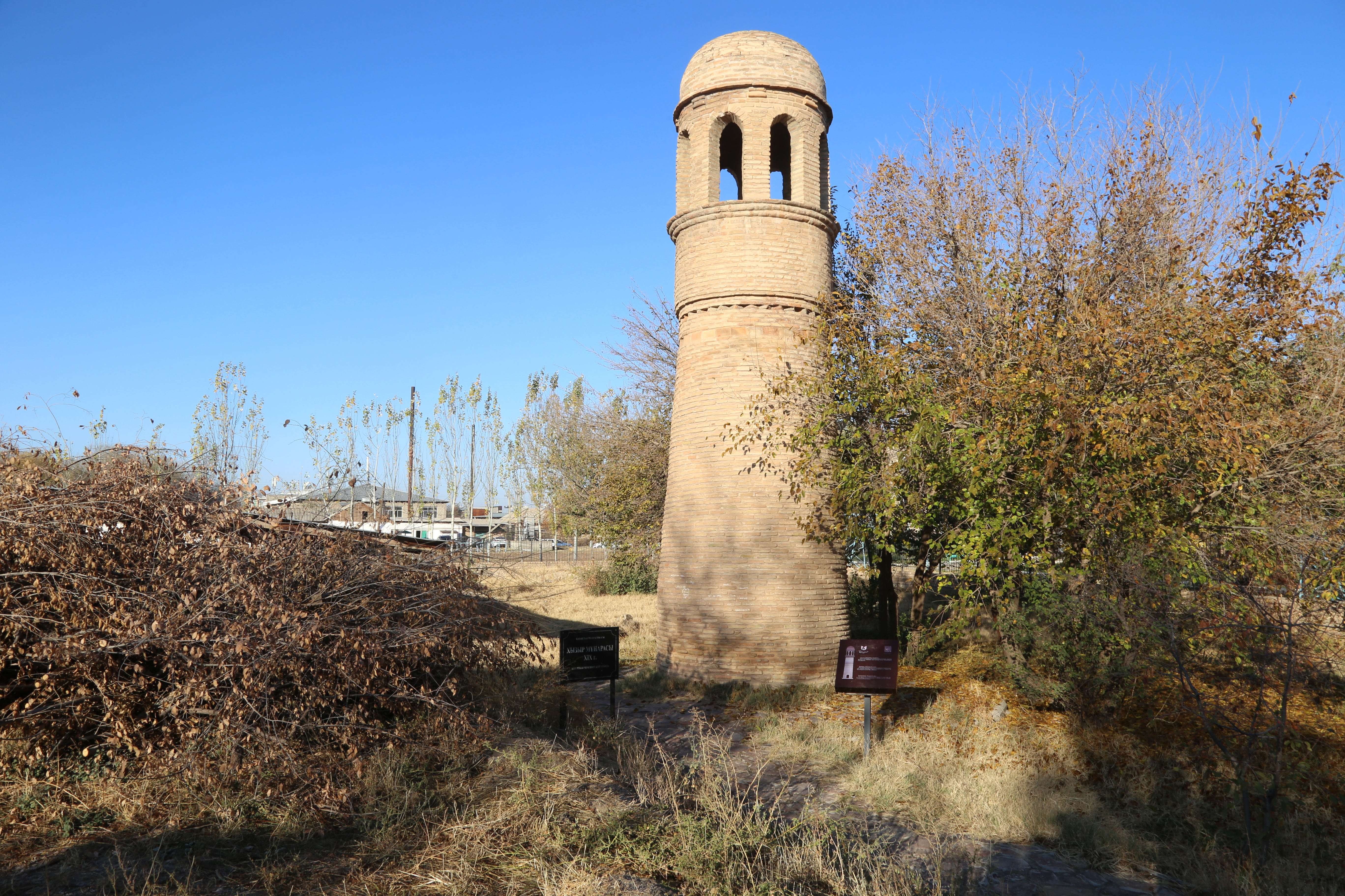 Qyzyr Paigambar Minaret